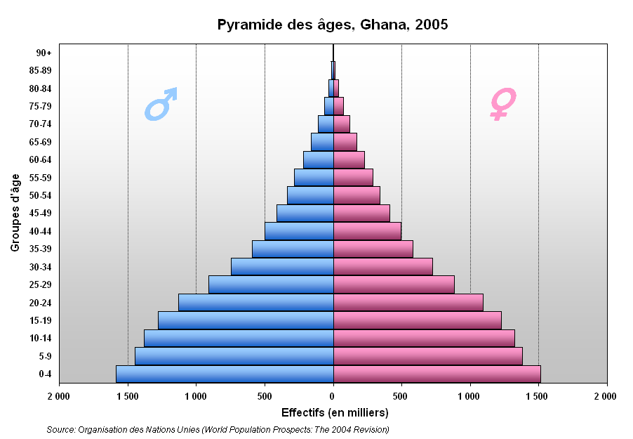 Ghana Population pyramid, 2005